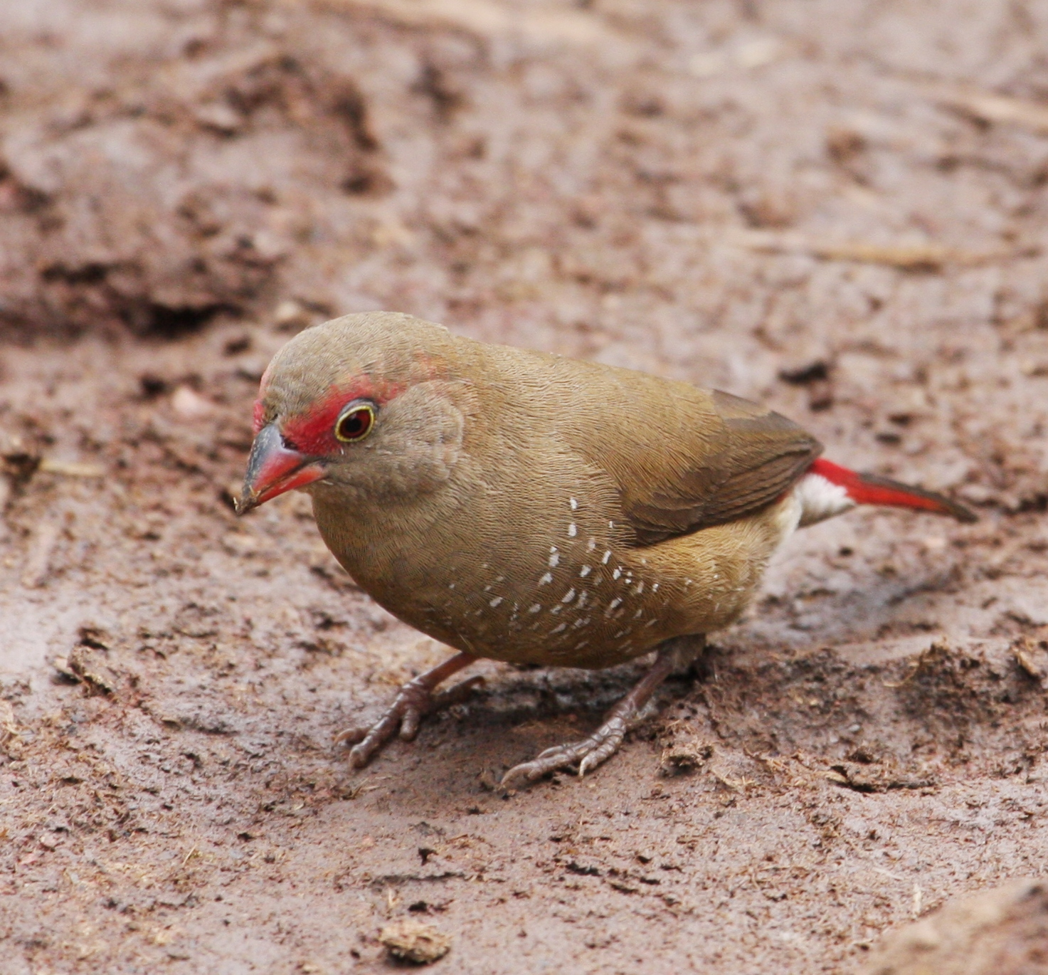 A female Red-billed firefinch (also known as the Senegal Firefinch) in Bahir Dar, Ethiopia